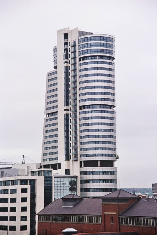 Leeds' new "City in the Sky", the mixed-function Bridgewater Place